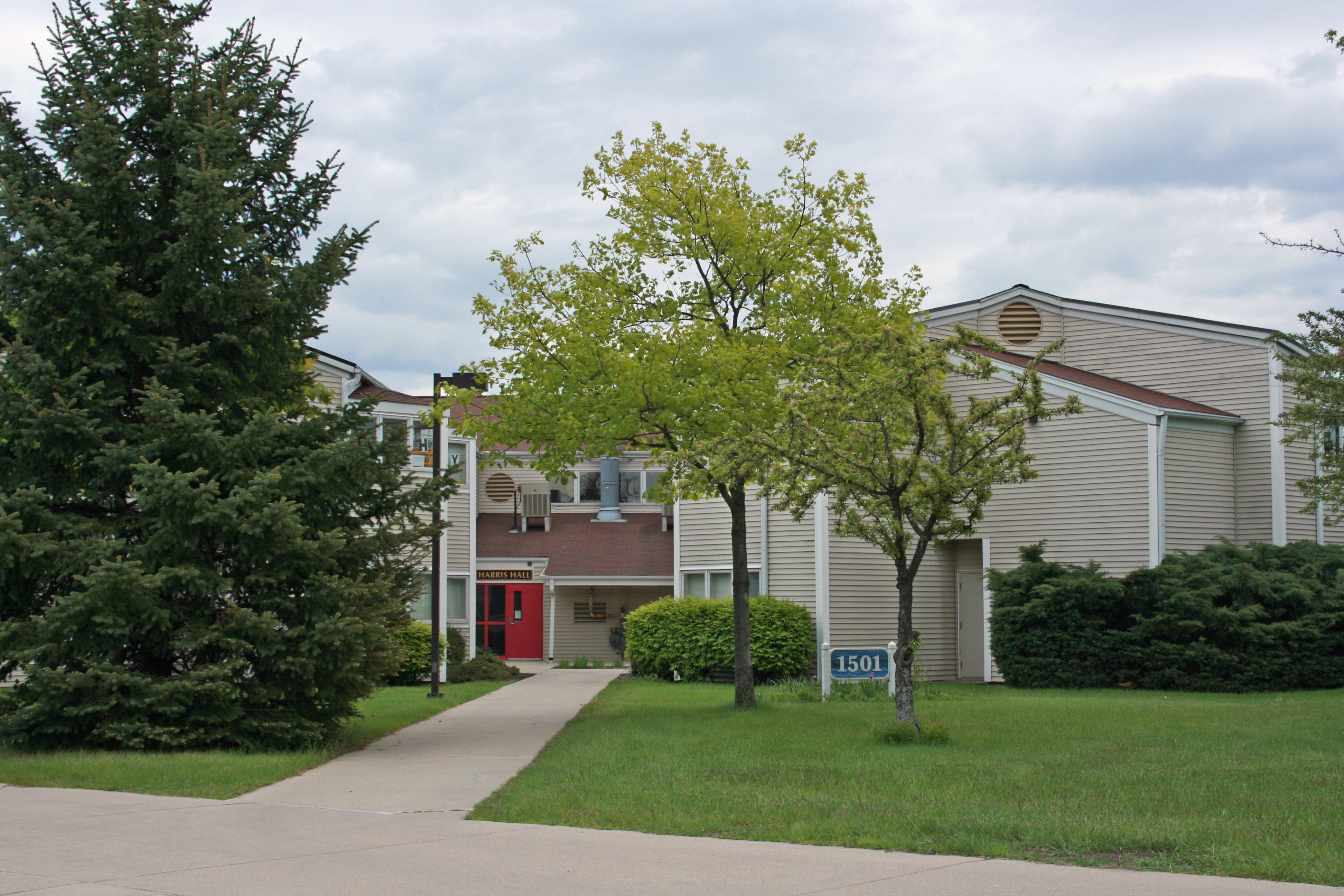 Illinois Mathematics and Science Academy residence halls